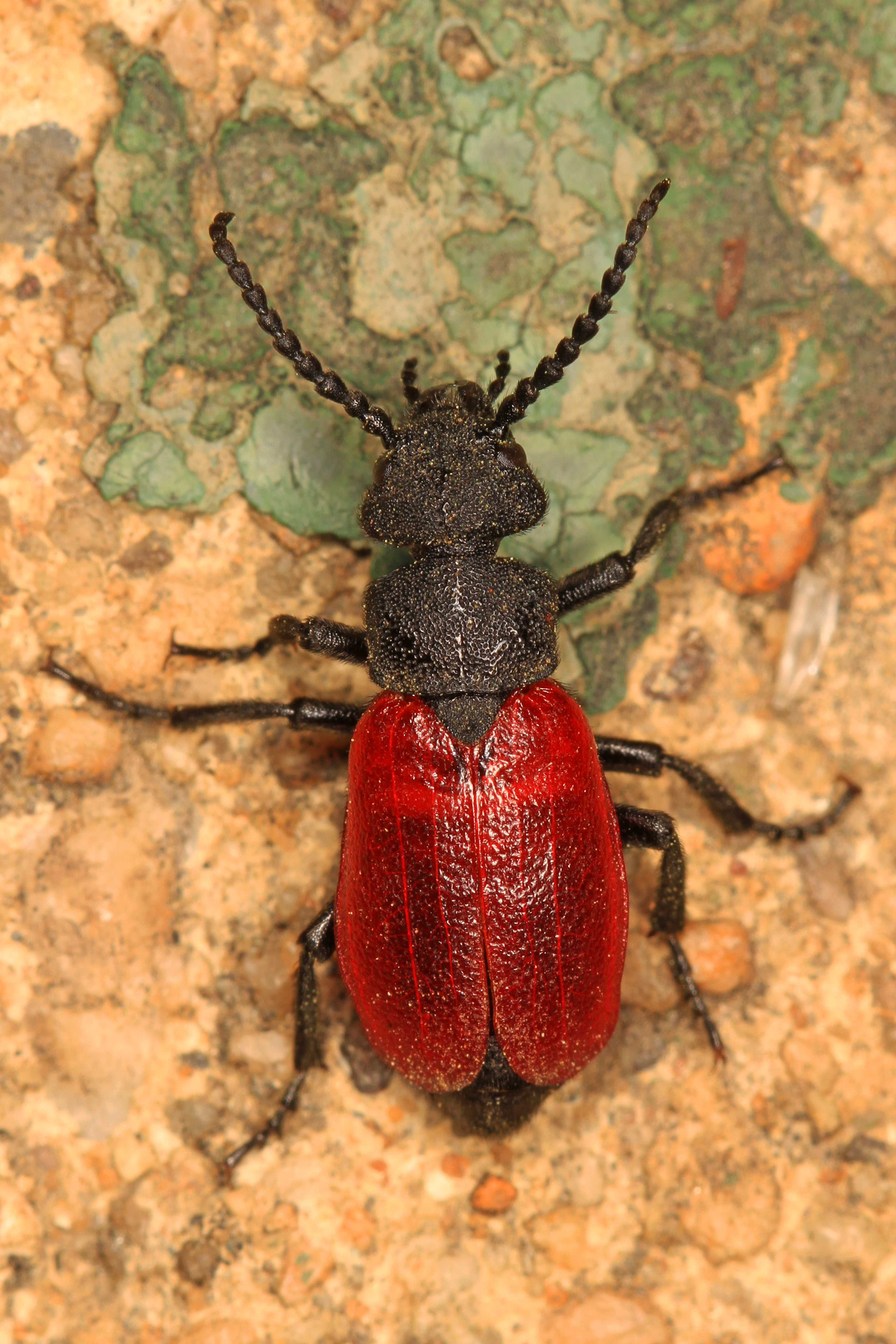 Blister Beetle - Tricrania sanguinipennis, Woodbridge, Virginia.